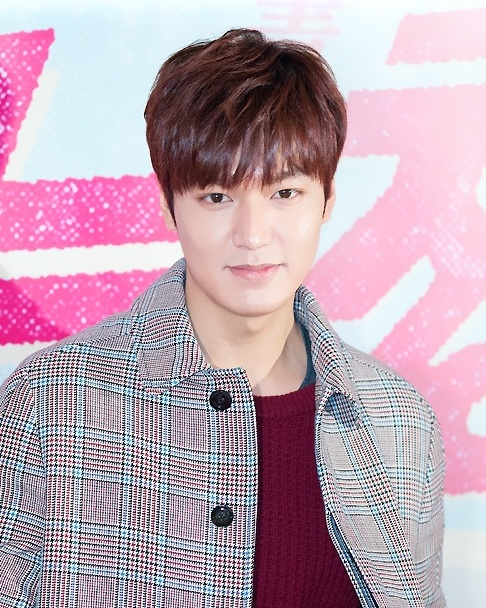 Lee Min-ho at the vip premiere of the movie "Hot Young Bloods" on January 20, 2014